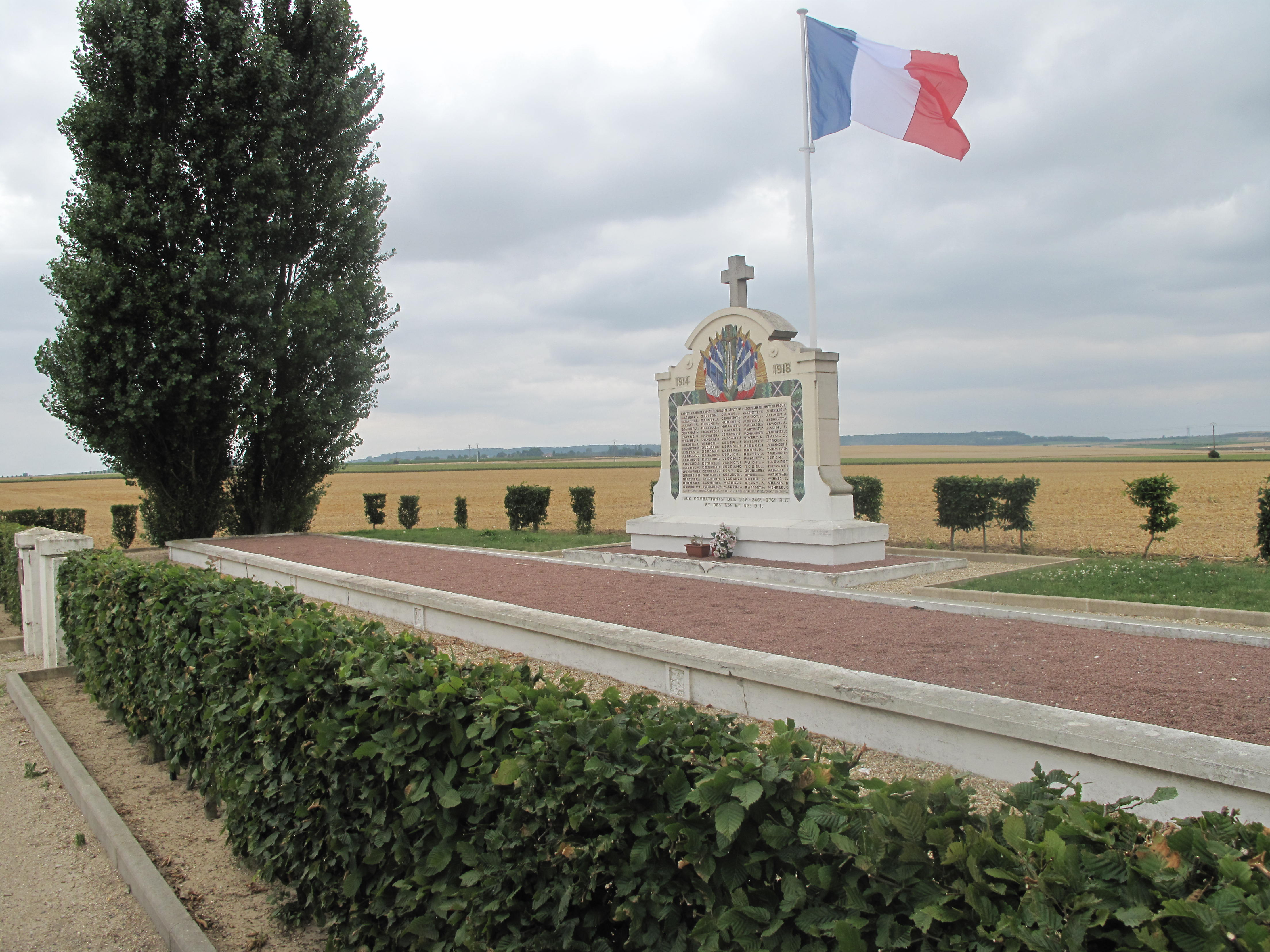 Memorial of Chauconin-Neufmontiers, Seine-et-Marne, France. It contains the remainings of 133 French soldiers fallen here during a counter-attack in september 1914, at the beginning of the WWI. Among them, their leutnant, the French writer Charles Péguy 1873-1914)